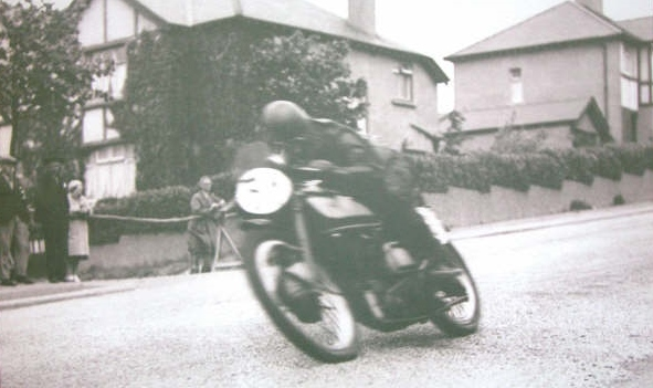 Harold Daniel descends Bray Hill during the 1938 Isle of Man TT.